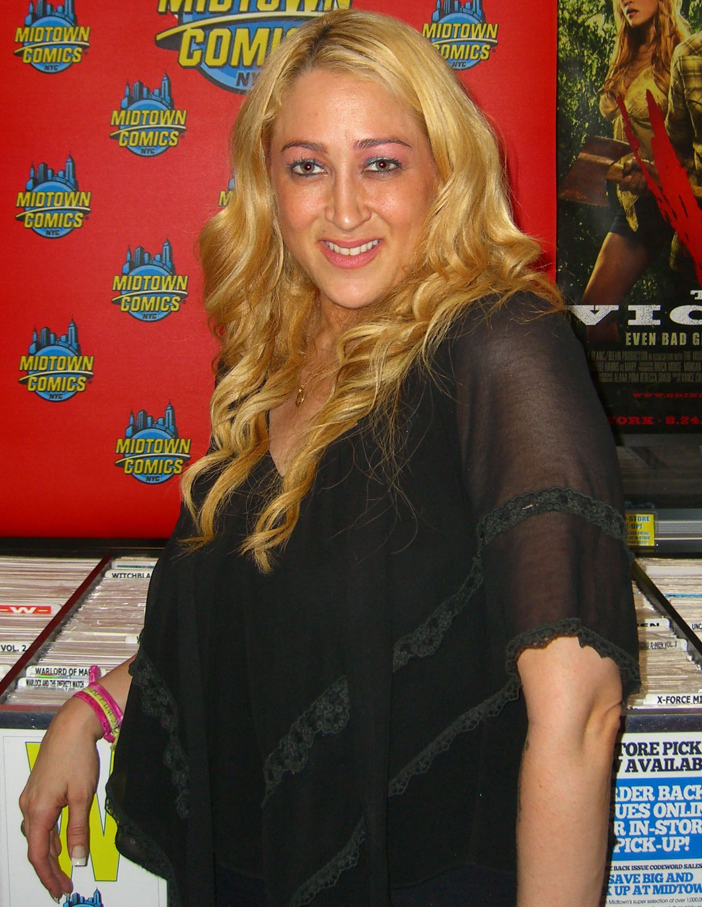 Actress Jennifer Blanc at an August 23, 2012 appearance at Midtown Comics Downtown in Manhattan to promote the horror film The Victim, in she stars, and which is directed by her husband, actor/director Michael Biehn. This photo was created by Luigi Novi. It is not in the public domain, and use of this file outside of the licensing terms is a copyright violation.